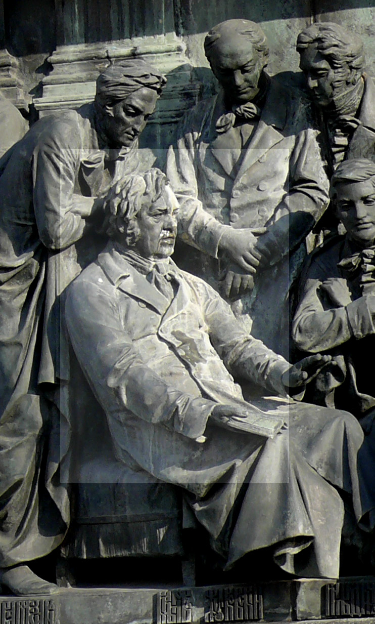 Ivan Krylov on the Monument «Millennium of Russia» in Veliky Novgorod